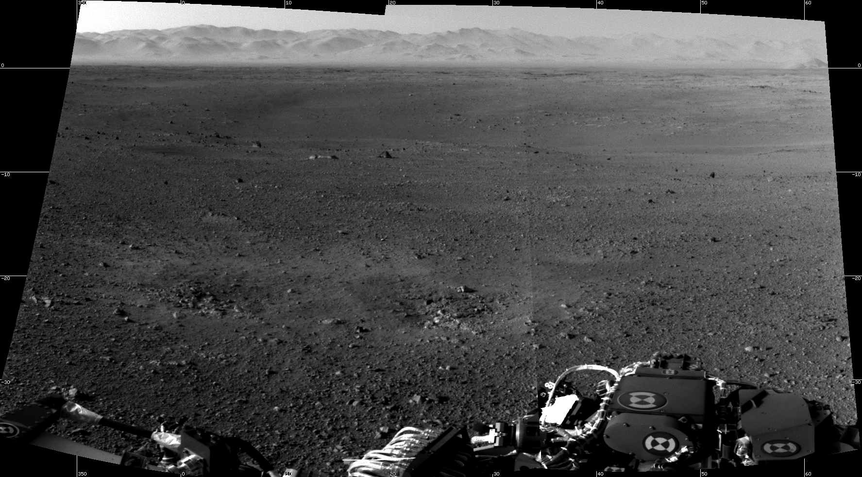 These are the first two full-resolution images of the Martian surface from the Navigation cameras on NASA's Curiosity rover, which are located on the rover's "head" or mast. The rim of Gale Crater can be seen in the distance beyond the pebbly ground. The topography of the rim is very mountainous due to erosion. The ground seen in the middle shows low-relief scarps and plains. The foreground shows two distinct zones of excavation likely carved out by blasts from the rover's descent stage thrusters. These are full-resolution images, 1024 by 1024 pixels in size.